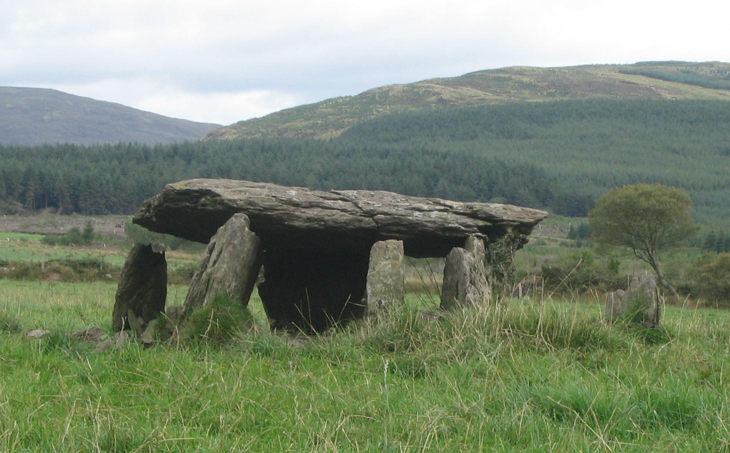 Wedge Tomb loccated in Glantane, Co Cork, Ireland